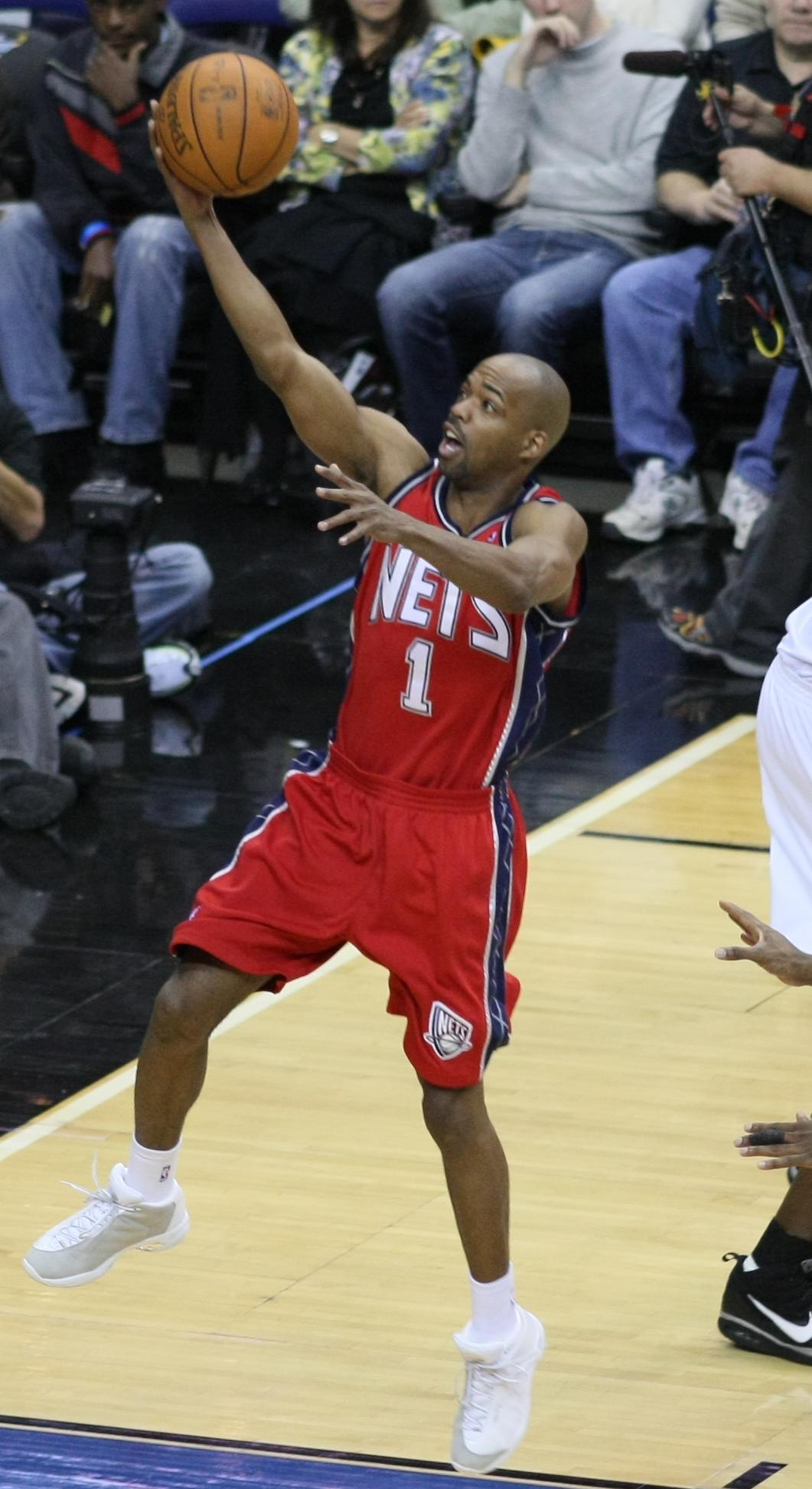 Rafer Alston playing with the New Jersey Nets